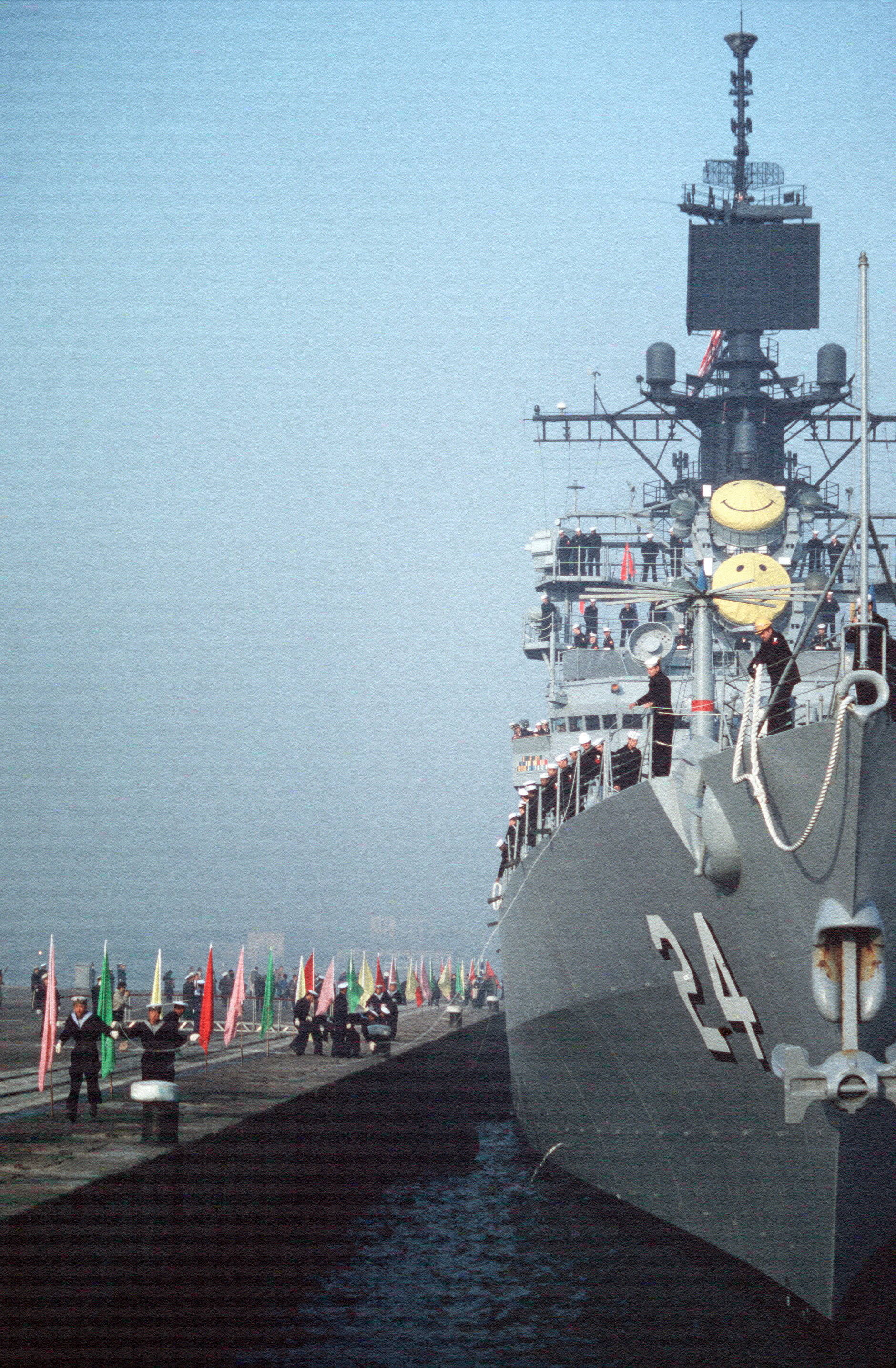 The U.S. Navy guided missile cruiser USS Reeves (CG-24) moors at Qingdao, China, on 5 November 1986. Accompanying Reeves on the visit were the guided missile frigate USS Rentz (FFG-46) and the destroyer USS Oldendorf (DD-972). This was the first visit by U.S. Navy ships to (the People's Republic of) China in 40 years.